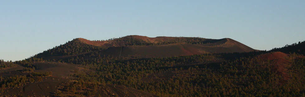 Double Crater, Arizona, facing southeast from an overlook.